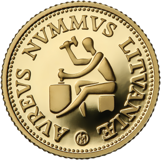 10 litas gold coin, issued as an item of the international programme "The Smallest Gold Coins of the World. History of Gold" Gold Au 925 Quality proof Diameter 13.92 mm Weight 1.244 g Edge reeded The designer of the coin is Giedrius Paulauskis Issued 1999 Minted 5,500 pcs Distributed 5,500 pcs The coin was minted at the state enterprise Lithuanian Mint.